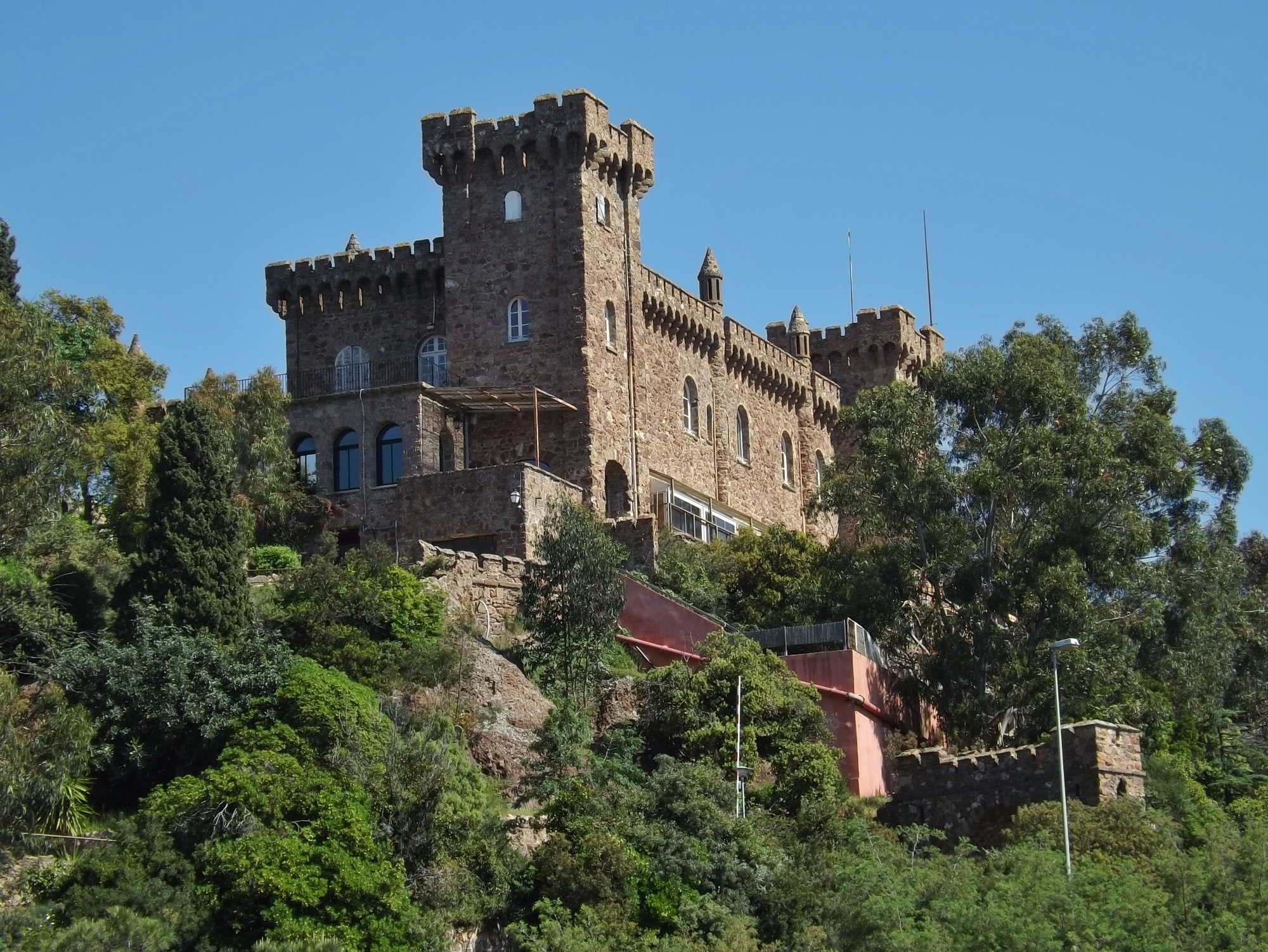 Sight of the château d'Agecroft castle, in Mandelieu-la-Napoule near Cannes in Alpes-Maritimes, France.